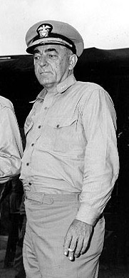 Vice Admiral Robert P. Briscoe in Korea, 18 July 1952.